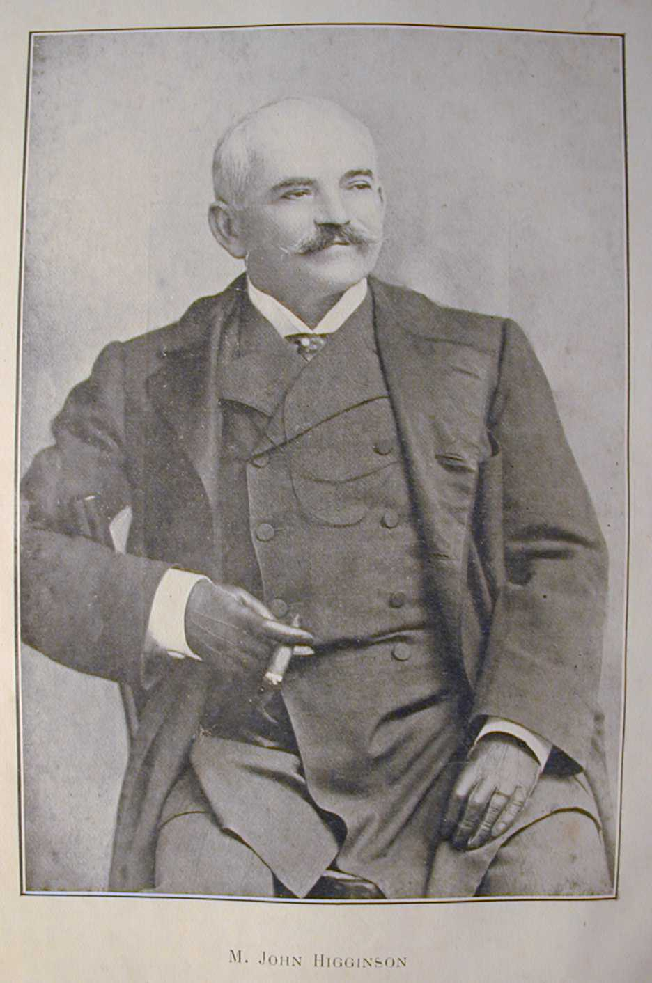 John Higginson, Anglo-French businessman from the XIXth century. He built his wealth upon trade and nickel.